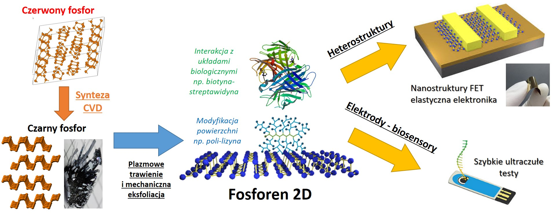 Phosphorene synthesis and applications in electronics and as biosensors. Anisotropic chemical surface modifications induced changes in electrical parameters of phosphorene. These phenomena allow investigating the sensing activity of phosphorene structures in biological and biochemical environments.